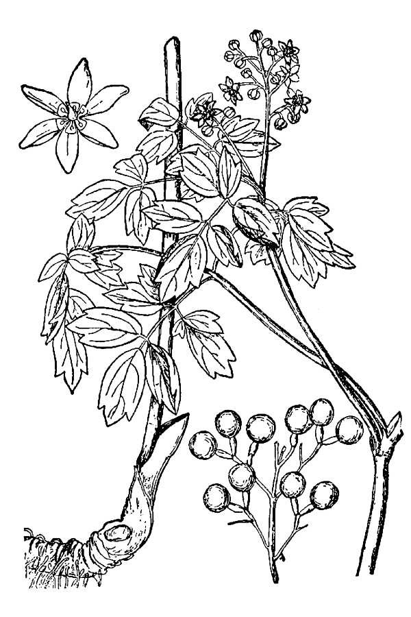 Scientific line drawing by Britton & Brown of Caulophyllum thalictroides, showing leaf, fruit, flower, and rhizome. Botanical family: Berberidaceae.